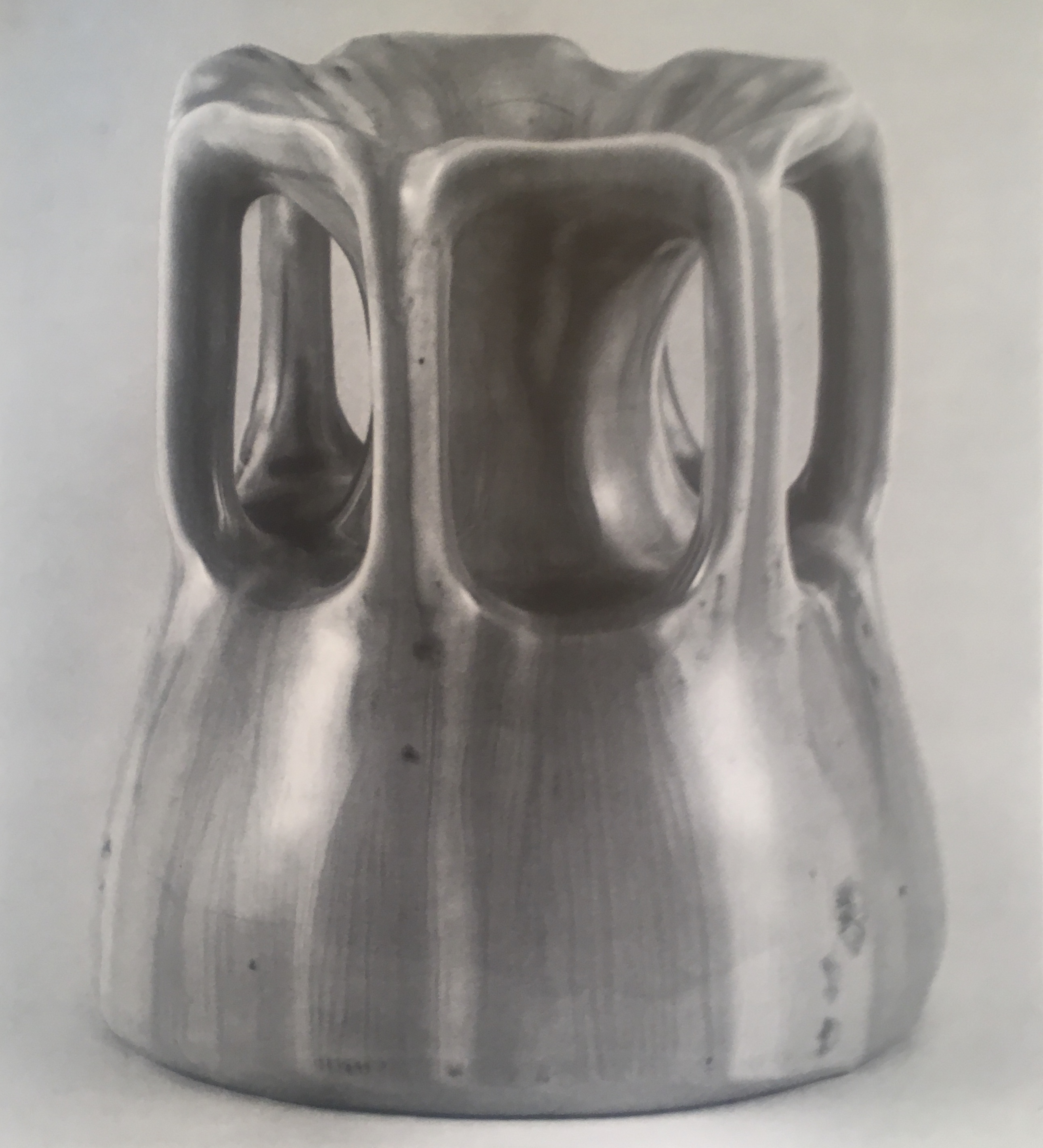 Wiener Kunstkeramische Werkstätte Vase